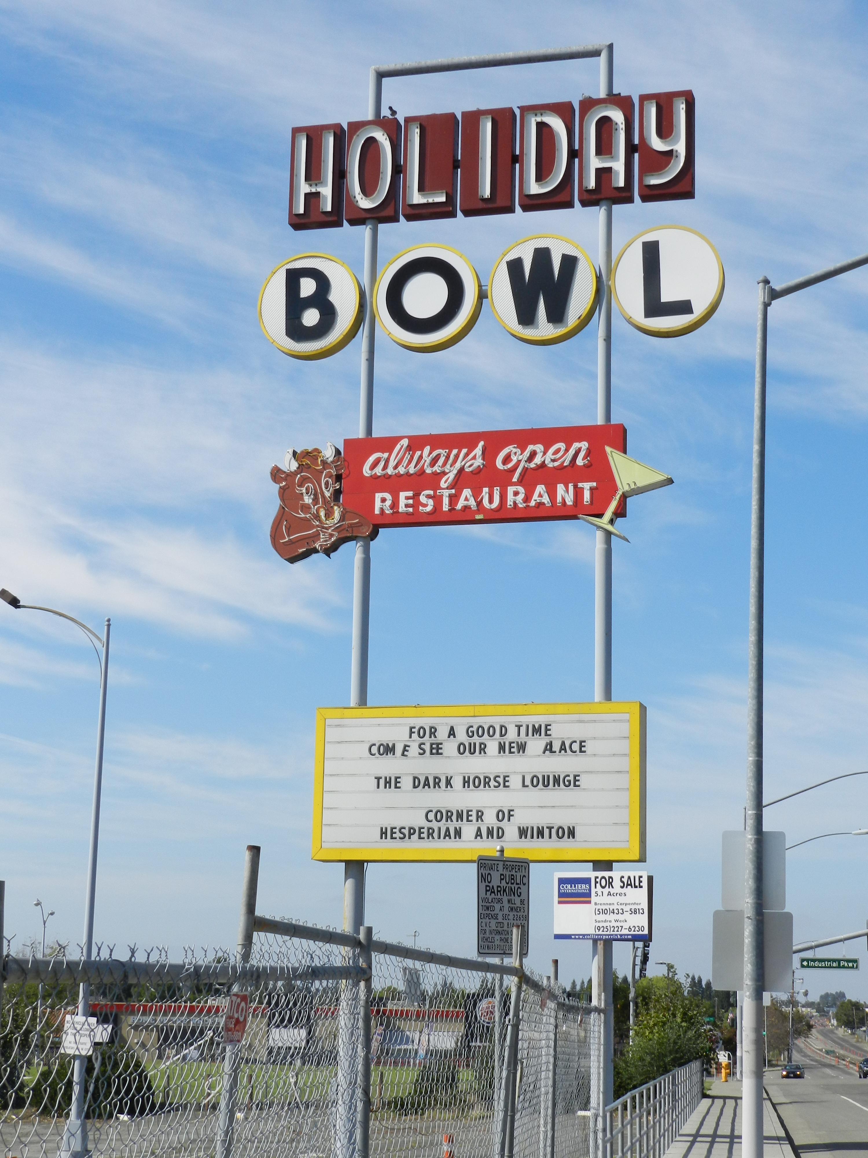 Holiday Bowl sign, (defunct bowling alley), Hayward, California